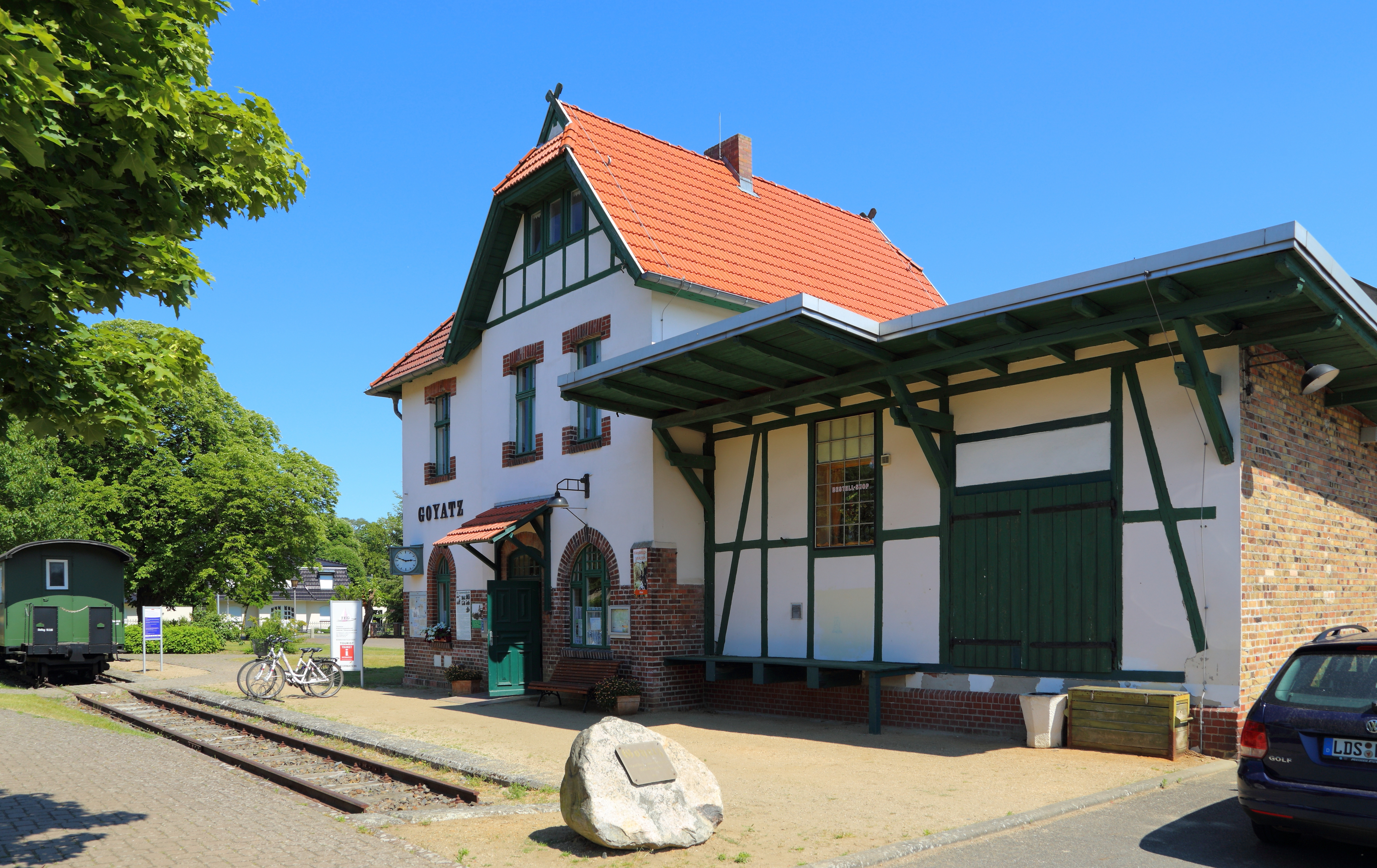 Former Spreewald Train Station in Goyatz, district of Schwielochsee, Landkreis Dahme-Spreewald, Brandenburg, Germany. The building is now used as a tourist information.